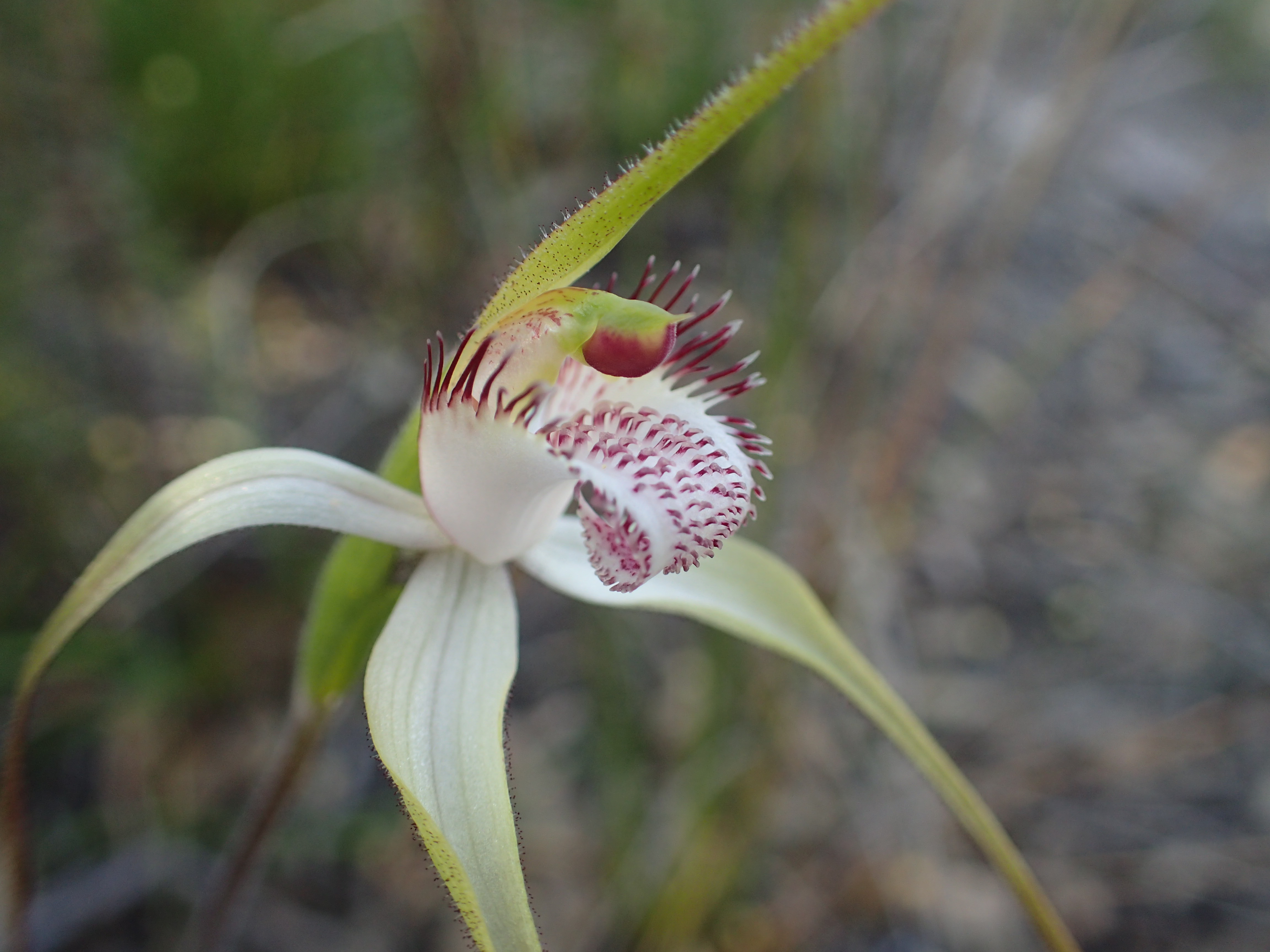 Caladenia longicauda subsp. rigidula growing in the Jerdacuttup Lakes Nature Reserve near Hopetoun